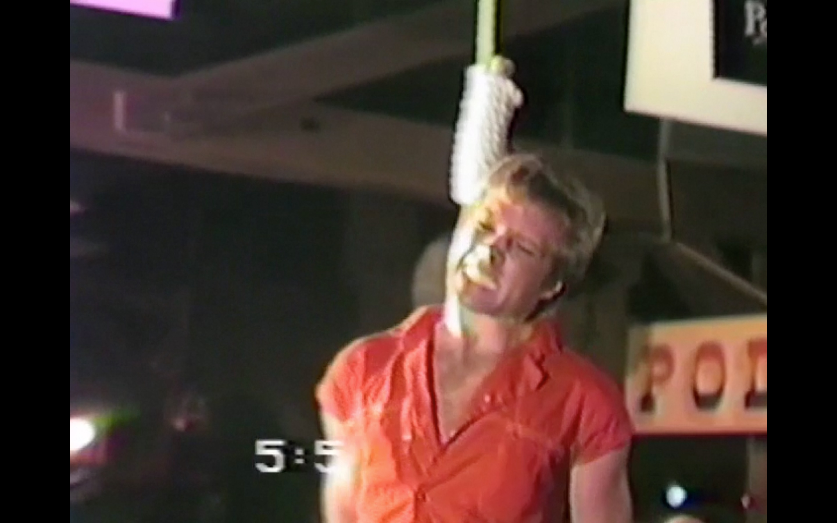 Escape Artist Michael Griffin became the only person in history to survive a real hanging with a regulation 13 knot noose around the neck, hands tied behind the back and pulled off the back of a horse.